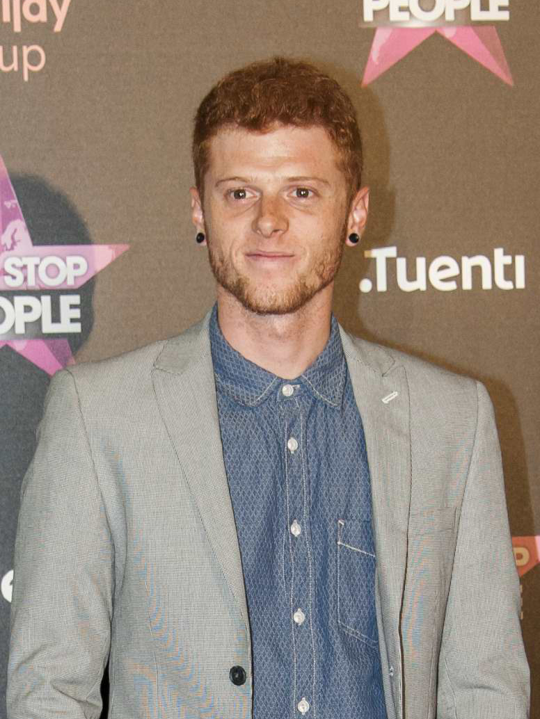 Fotos del photocall y fiesta de lanzamiento de un nuevo canal de televisión en España.